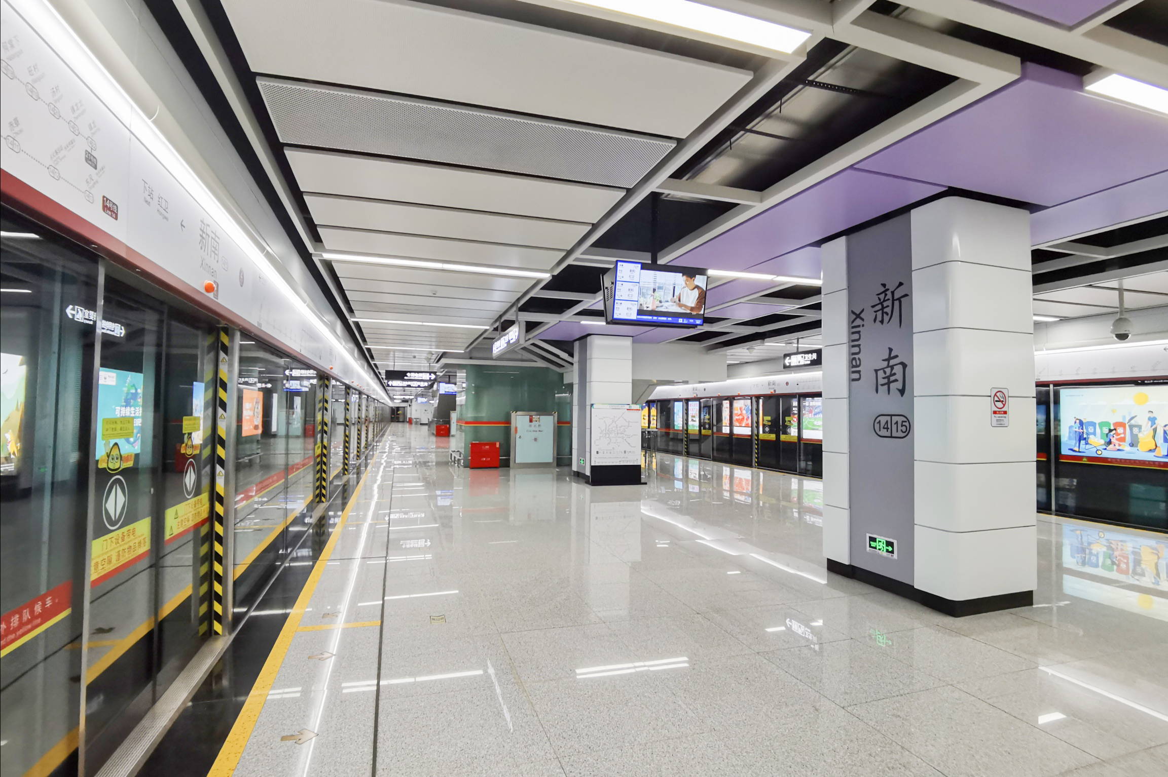 广州地铁新南站